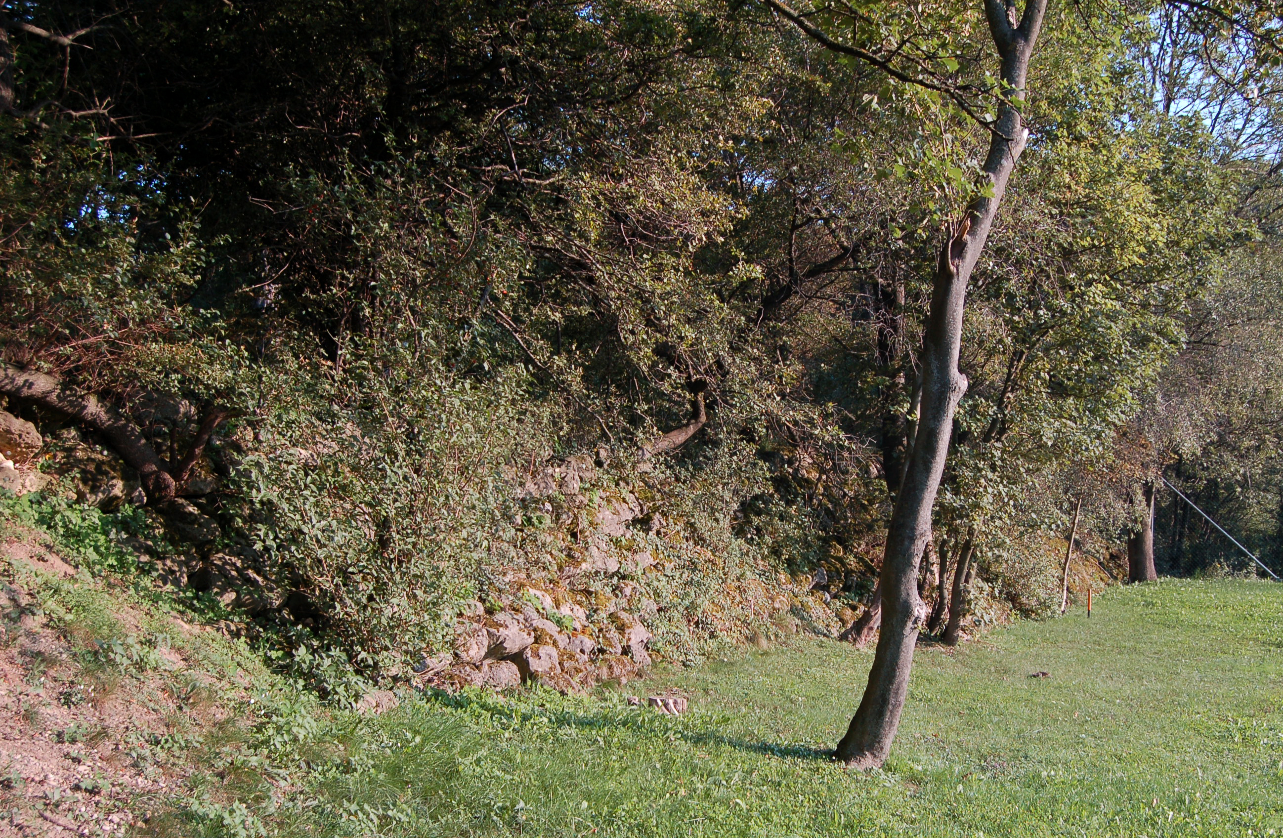 The Thomb, a dam from the late medivial age, in St. Lorenzen am Steinfeld, municipality Ternitz, Lower Austria